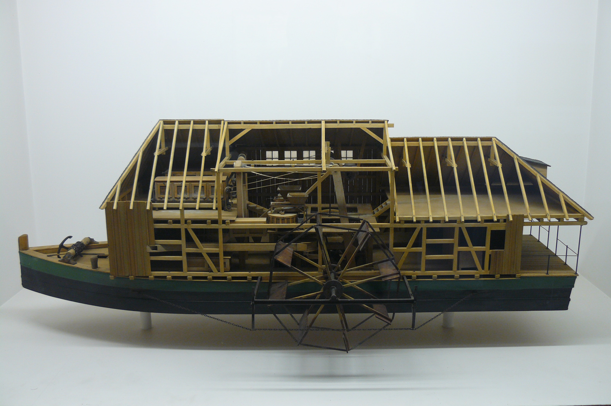 Model of German shipmill, used near Mainz in the Rhine river around 1819. Seen in Deutsches Museum, Muenchen in Germany. April 2012